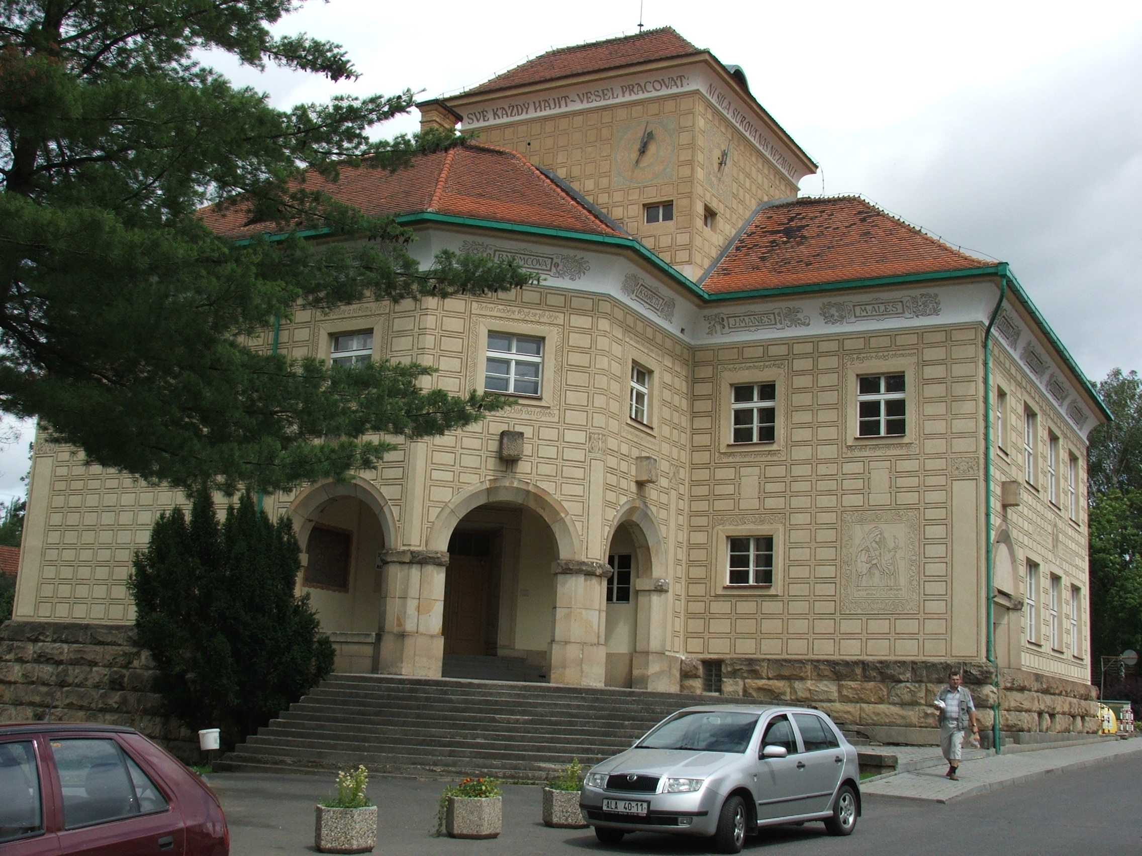 School in Krušovice, Central Bohemian Region, Czechia